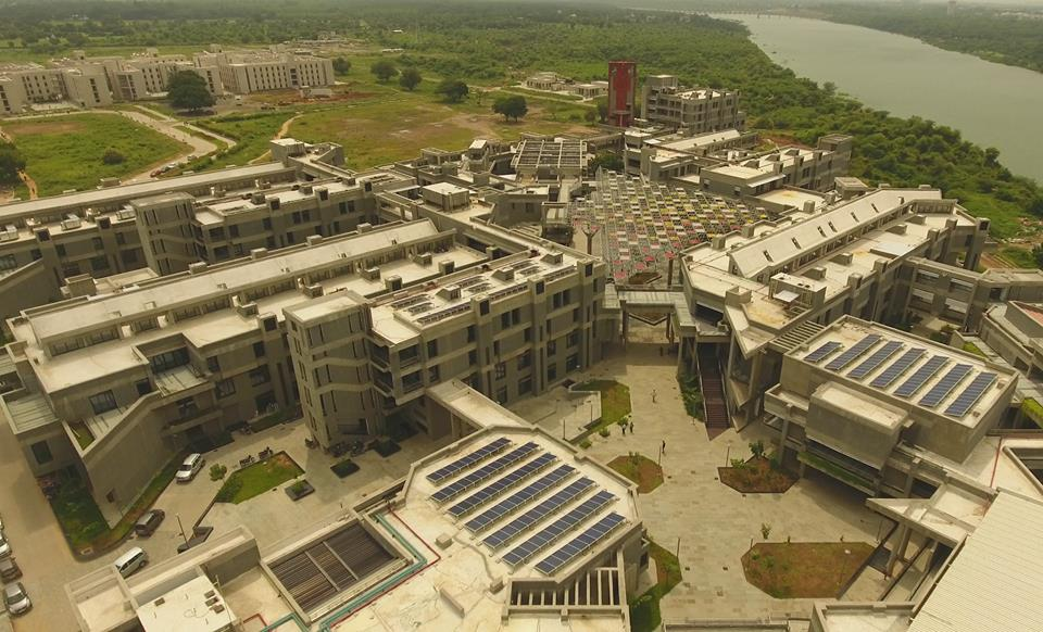 Lectures, Seminars, Workshops, Practicum and the like are conducted in the academic area.